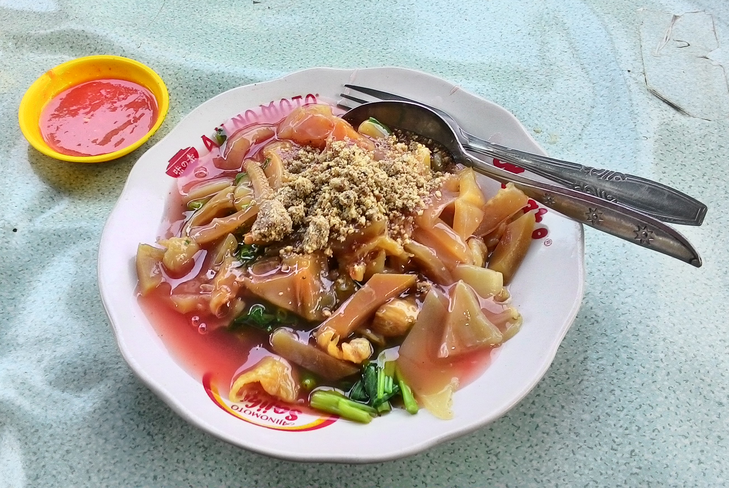 Rujak Shanghai served in Glodok Chinatown, Jakarta, Indonesia. Rujak Shanghai is a Chinese Indonesian delicacy made of pieces of water spinach, preserved squid, edible jellyfish, daikon and cucumber, served in thick sweet and sour sauce, sprinkled with peanuts granules and sambal. The dish was named after Shanghai Cinema (now closed) at Glodok, where the first Rujak Shanghai was sold in front of the cinema back in 1950s.